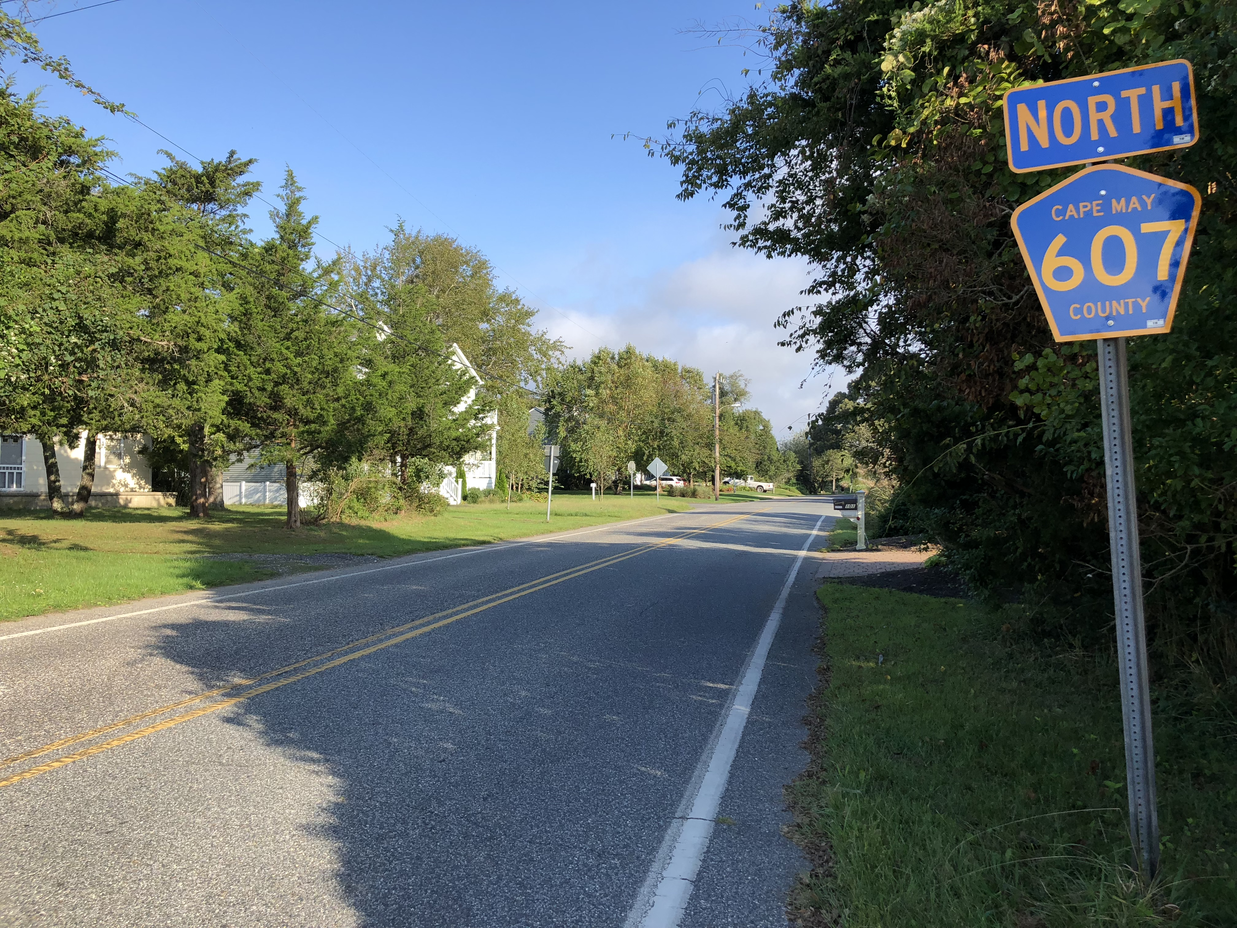 View north along Cape May County Route 607 (Bayshore Road) just north of Cape May County Route 606 (Sunset Boulevard) in West Cape May, Cape May County, New Jersey